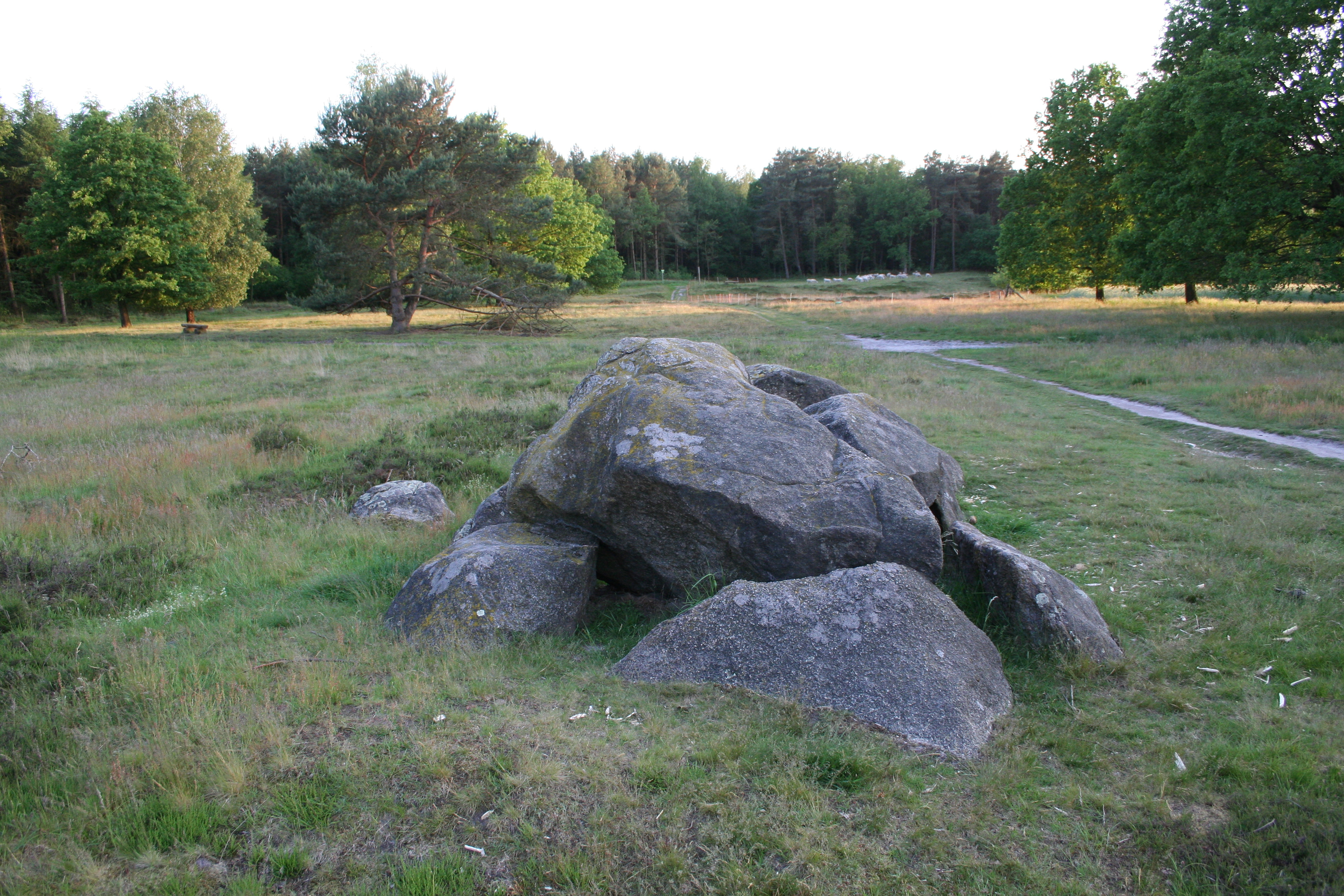 Megalithic tomb Glaner Braut 3